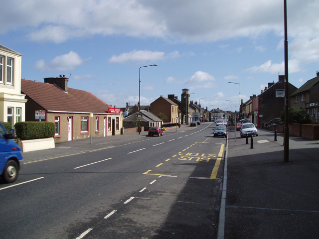 View along the Main thoroughfare in this West Lothian Town, Armadale was founded on heavy industry such as coal mining, limestone quarrying and brick making, all of which are gone now, Today it is mainly a commuter town roughly midway between Edinburgh and Glasgow and is close to the M8 Motorway.